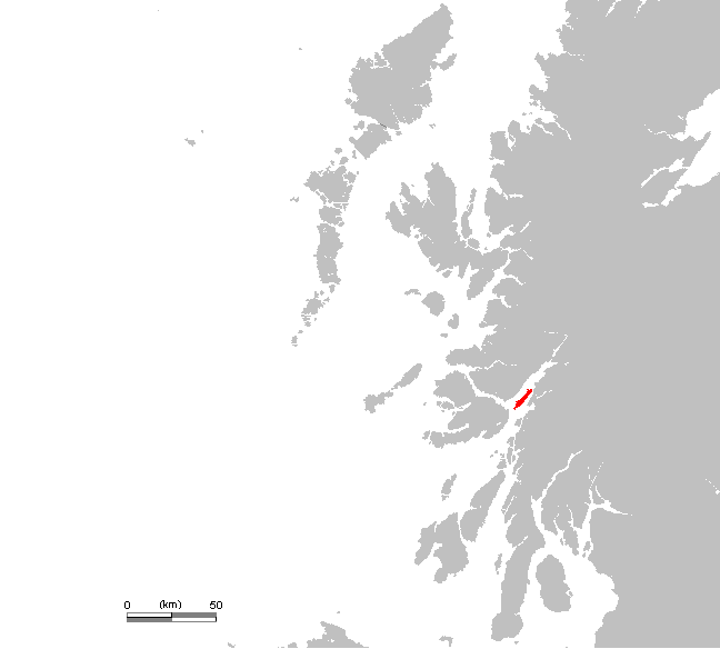 UK Lismore.PNG (Scotland, Hebrides)